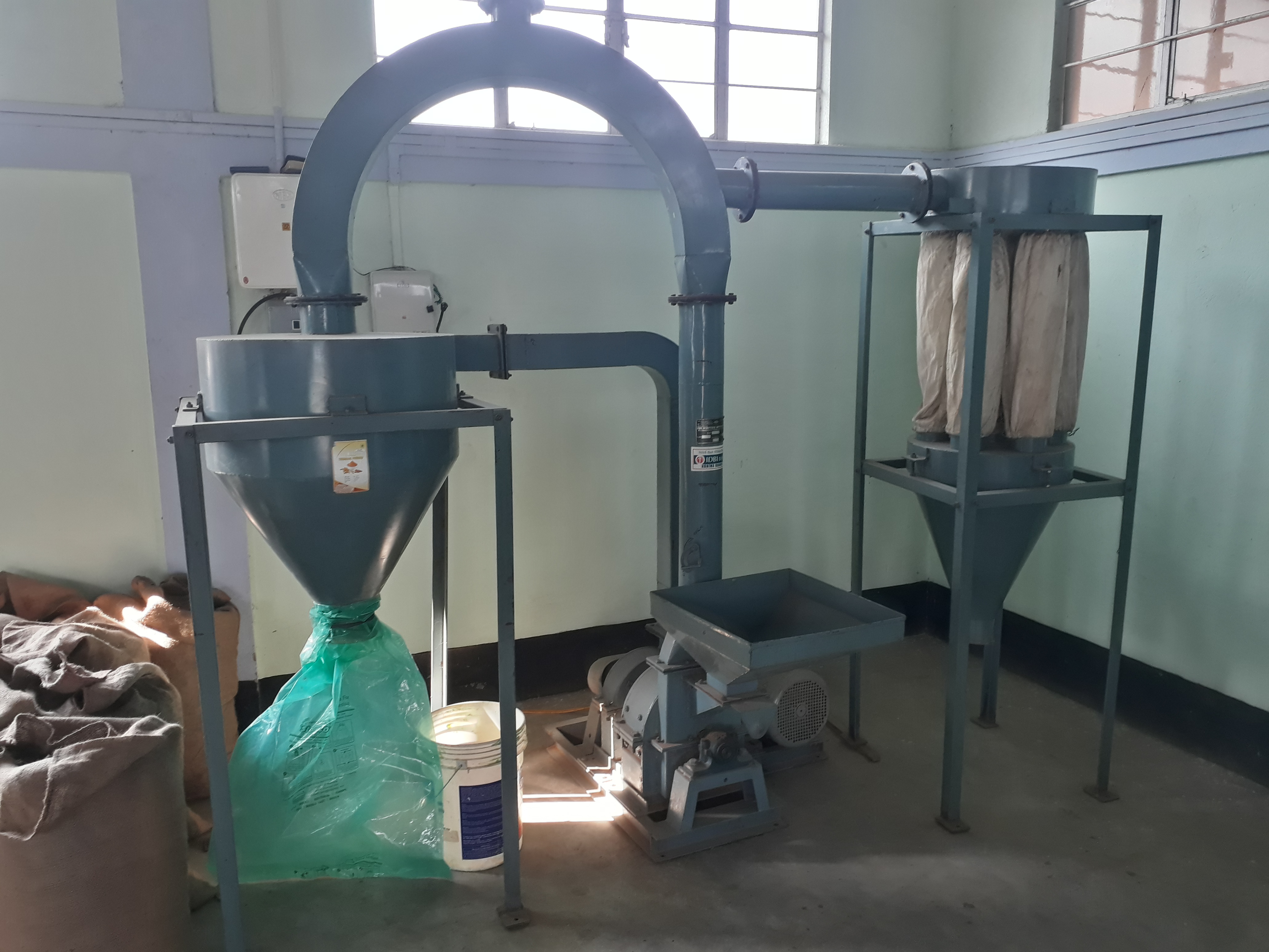 A spice processing unit supported by MOVCD-NER scheme through financial assistance in Nagaland